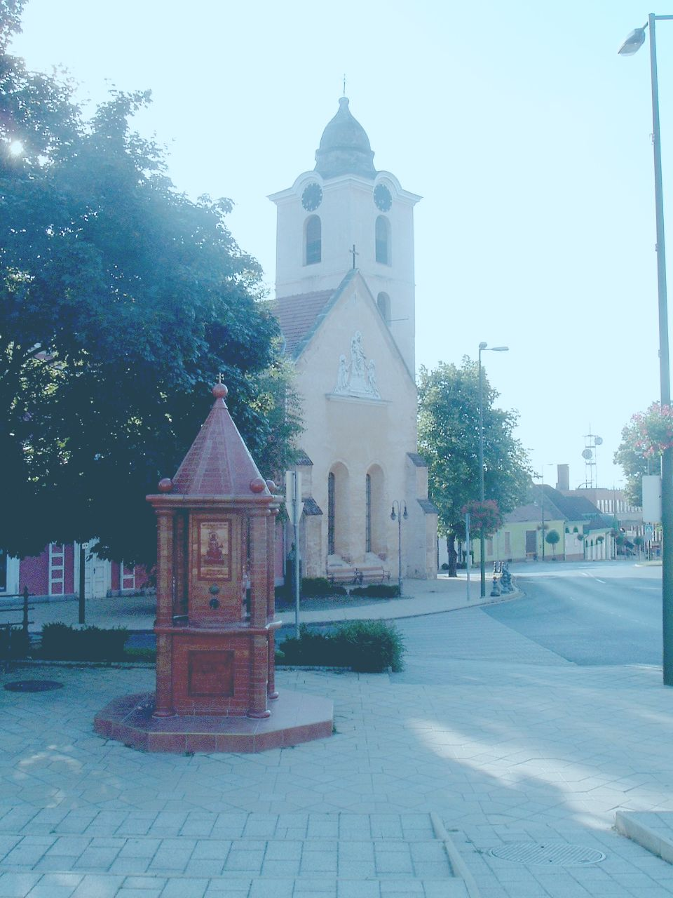 The Main Square in Vasvár, Hungary